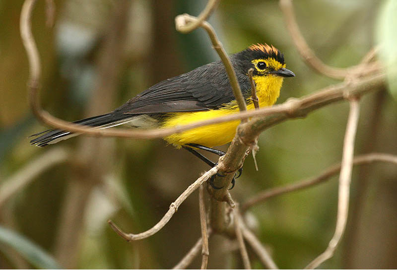 Spectacled Redstart (Myioborus melanocephalus), or, more accurately, the Spectacled Whitestart at Cayambe-Coca Reserve, near Papallacta Pass, Ecuador.